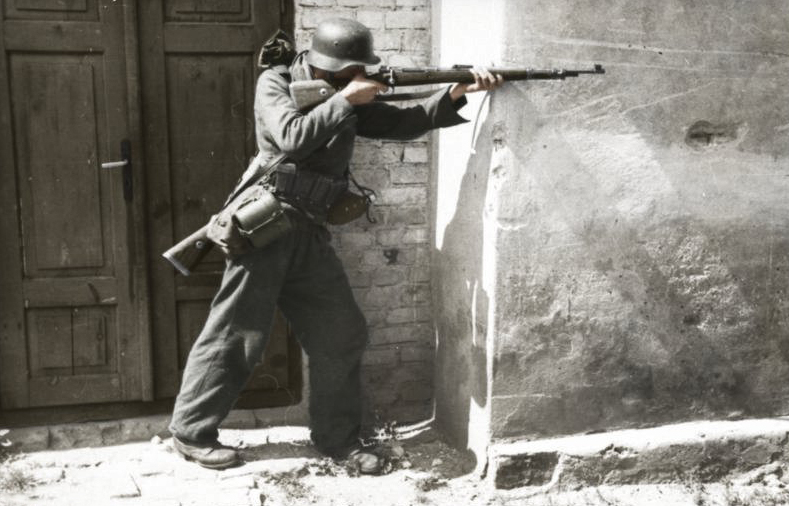 Warsaw Uprising: German shooter, with two Karabiner 98k rifles. Picture supposedly taken in the area of Theatre Square.